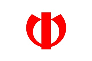 Flag of Nakai kanagawa